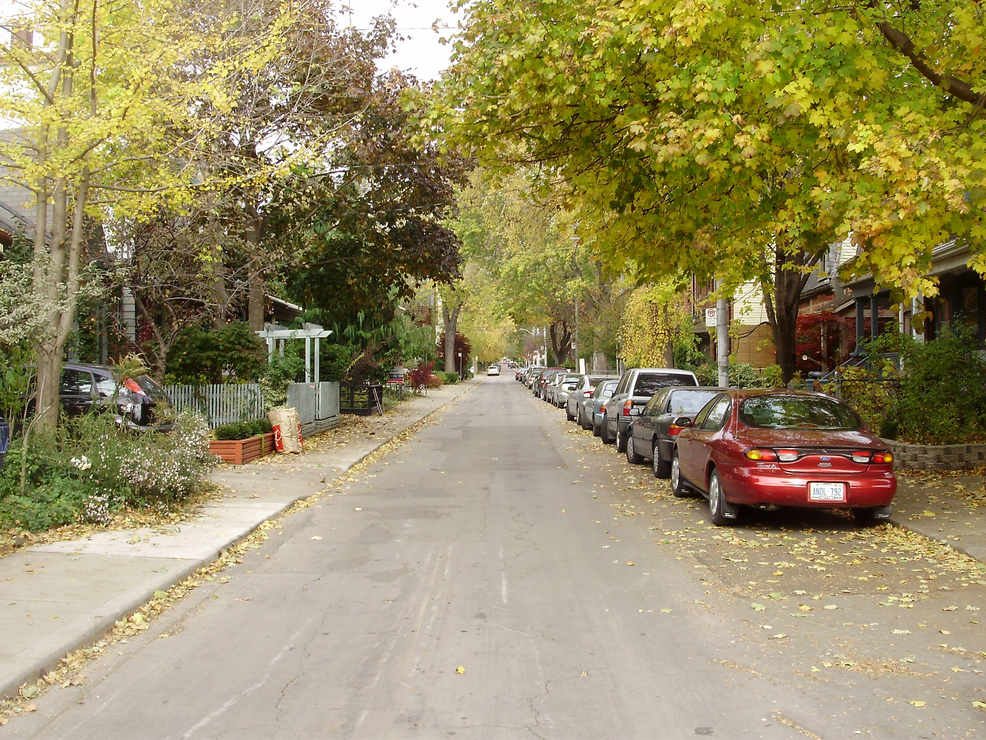 Looking north up De Grassi Street, a residential one-way street, north of Queen Street East in Toronto, Ontario, Canada.